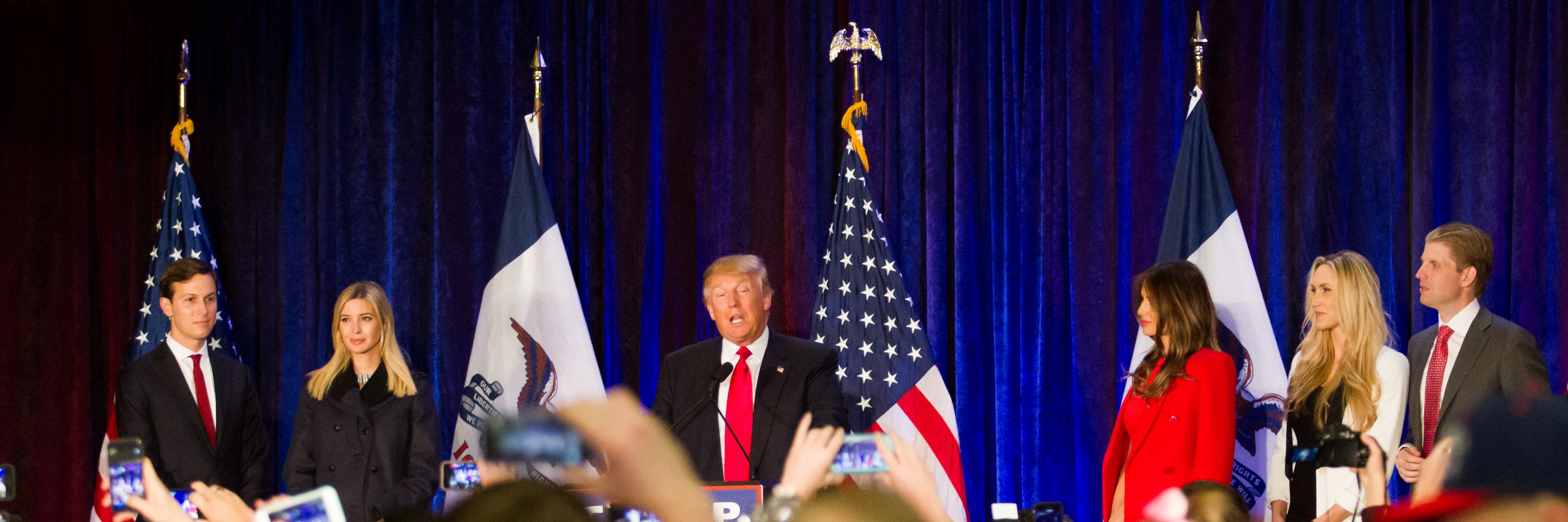 Trump CAUCUS